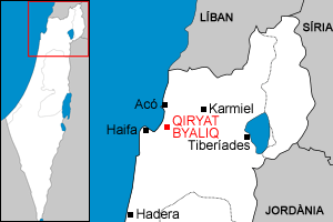 Localization of Qiryat Byaliq within Israel.